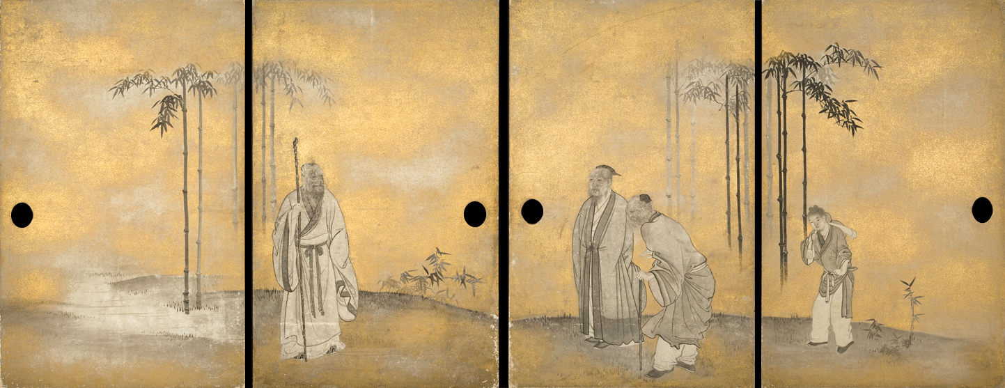 Seven Sages of the Bamboo Grove by Maruyama Okyo, Kotohira-gu, Kotohira, Kagawa, Japan